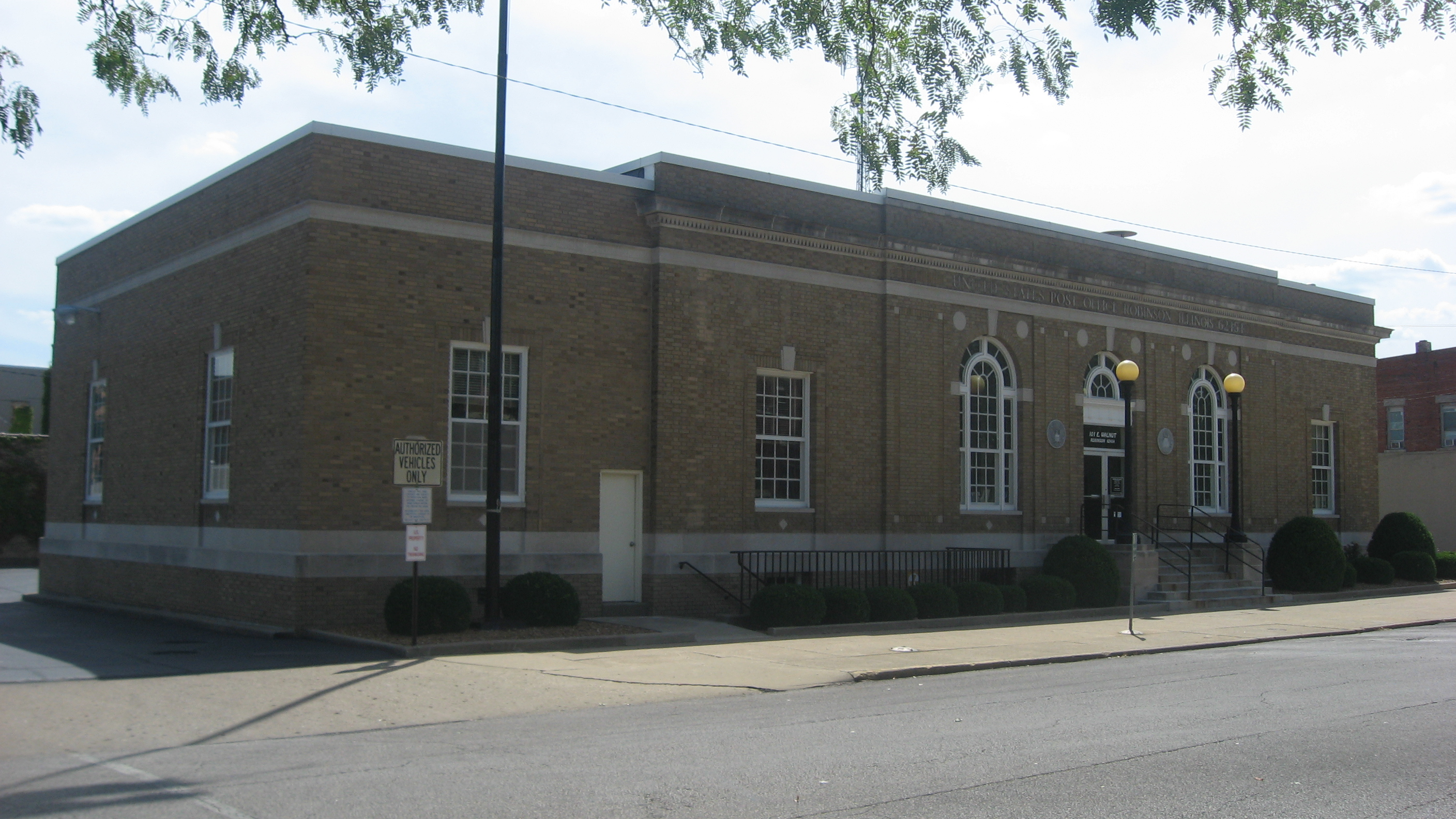 Front and eastern side of the Robinson Post Office, located at 101 E. Walnut Street on Courthouse Square in Robinson, Illinois, United States.